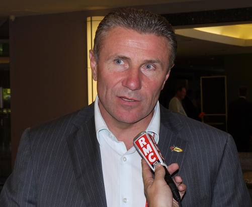 IOC member and IAAF vice president Sergei Bubka. (ATR/Panasonic: Lumix)